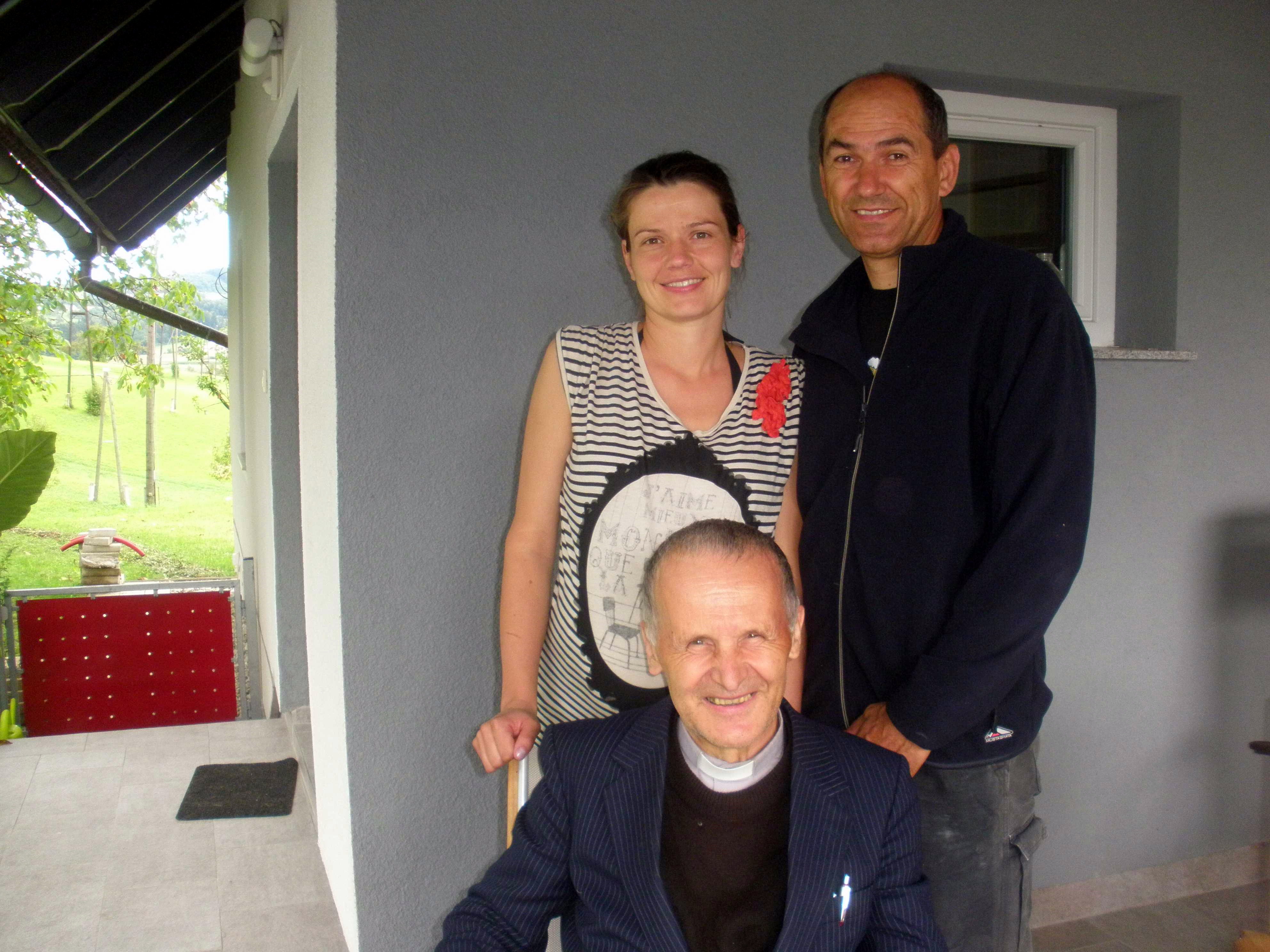 I with Janez and Urška Janša - they worked at home in Šentilj pri Velenju, Slovenia